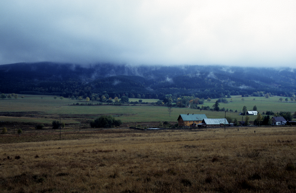 Lasówka village in Bystrzyckie Mts., Central Sudetes, Poland. Dzika Orlica river valley and Orlickie Mts. in the background.